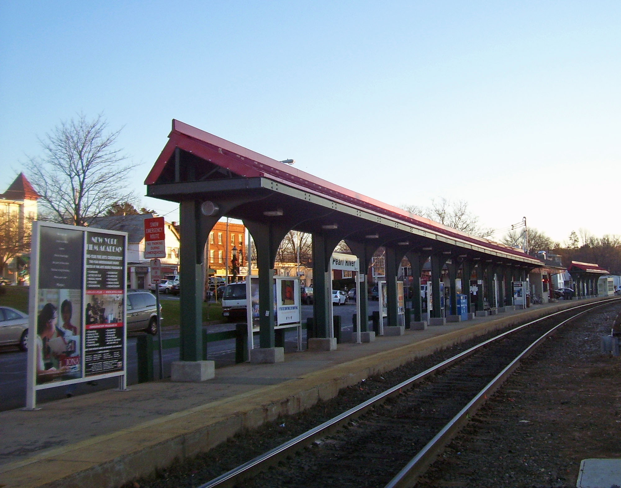 Train station, Pearl River, NY, USA